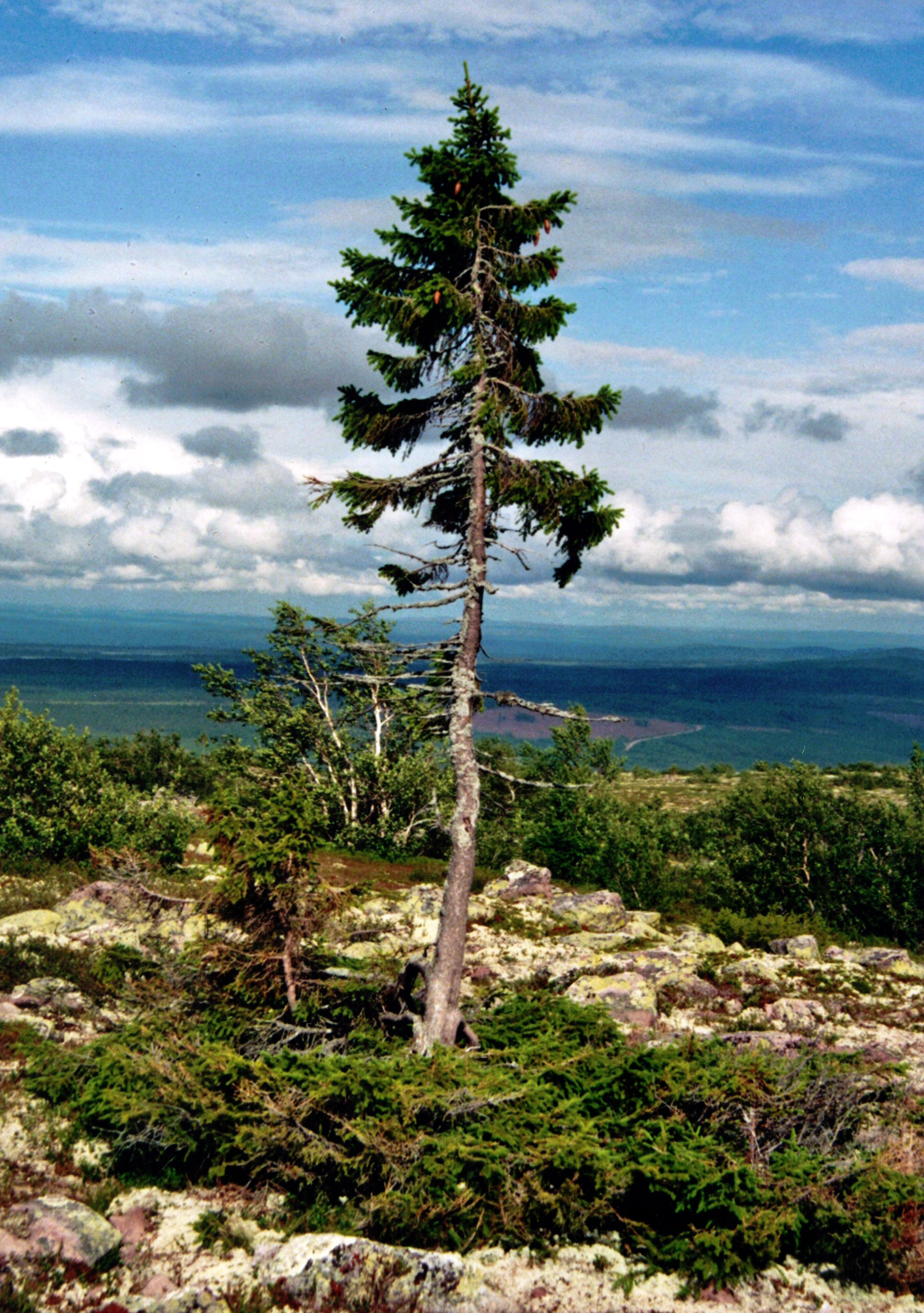 Old Tjikko is a tree in Fulufjäll in Sweden which is claimed to be the oldest tree in the world, by age of its root system. The visible part is much younger. It is a Norway spruce.